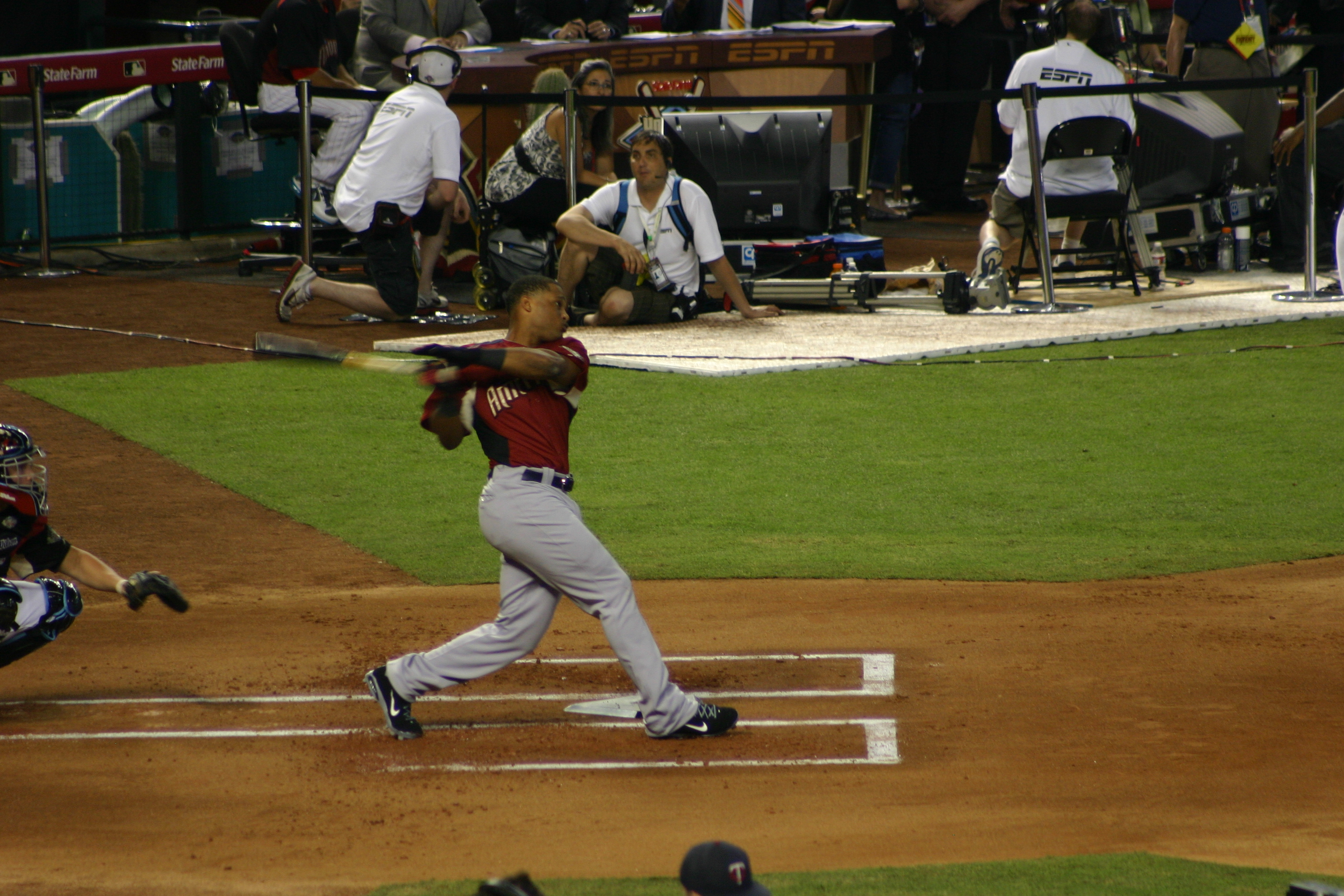 Robinson Canó at bat during round 1 of the 2011 Home Run Derby